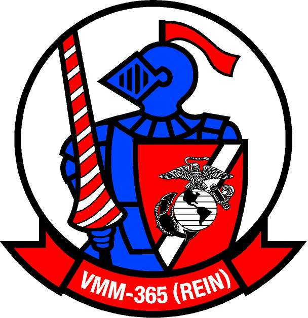 VMM-365(REIN) patch Other information This JPG is a US Military organizational unit patch.